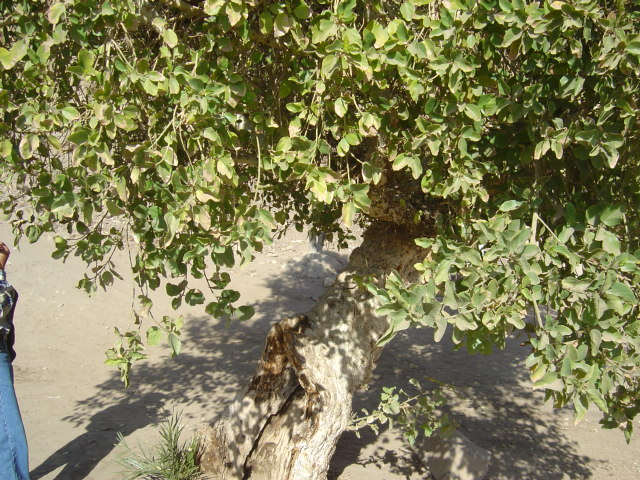 Native Ficus sycomorus tree at Karnak - Upper Egypt.